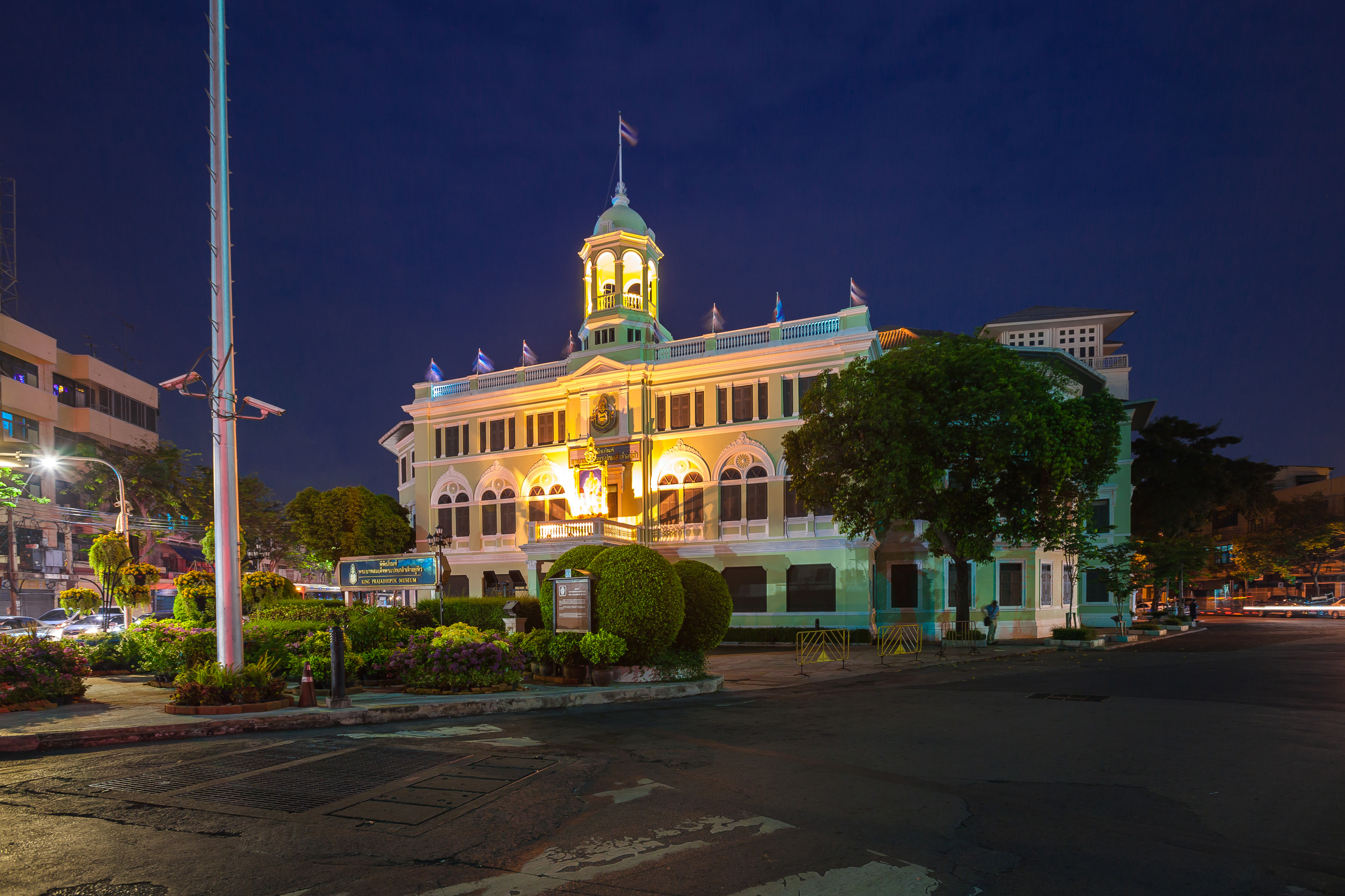 John Sampson & Son Department Store at BKK, now change to King Prajadhipok Museum.